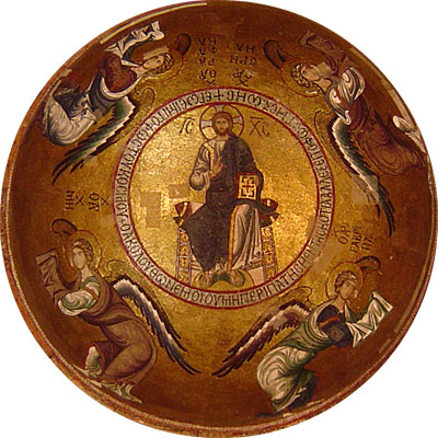 Mosaic ikon of Christ Pantokrator in La Martorana, Palermo, Sicily